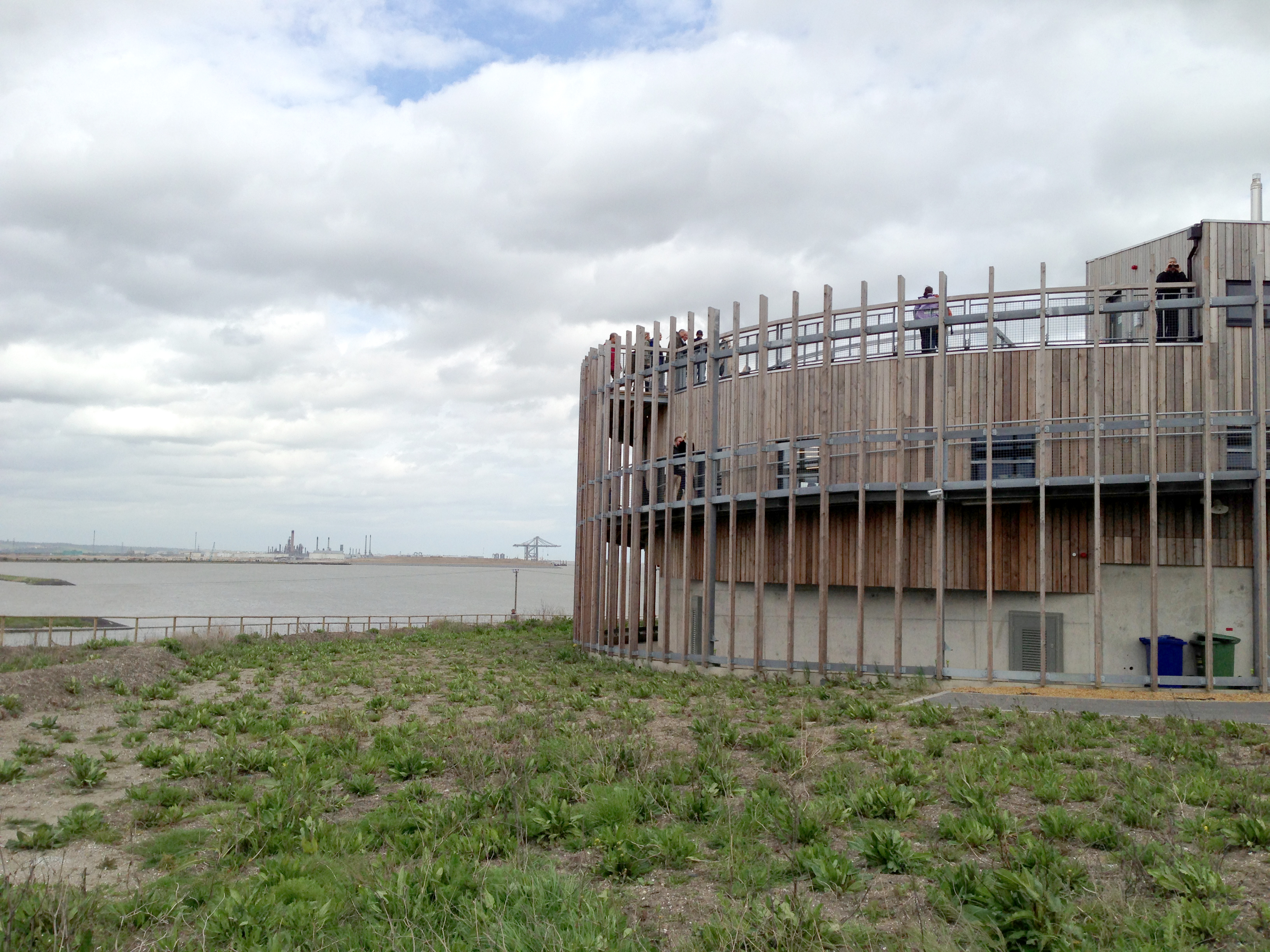 Cory Environmental Centre looking towards the Thames